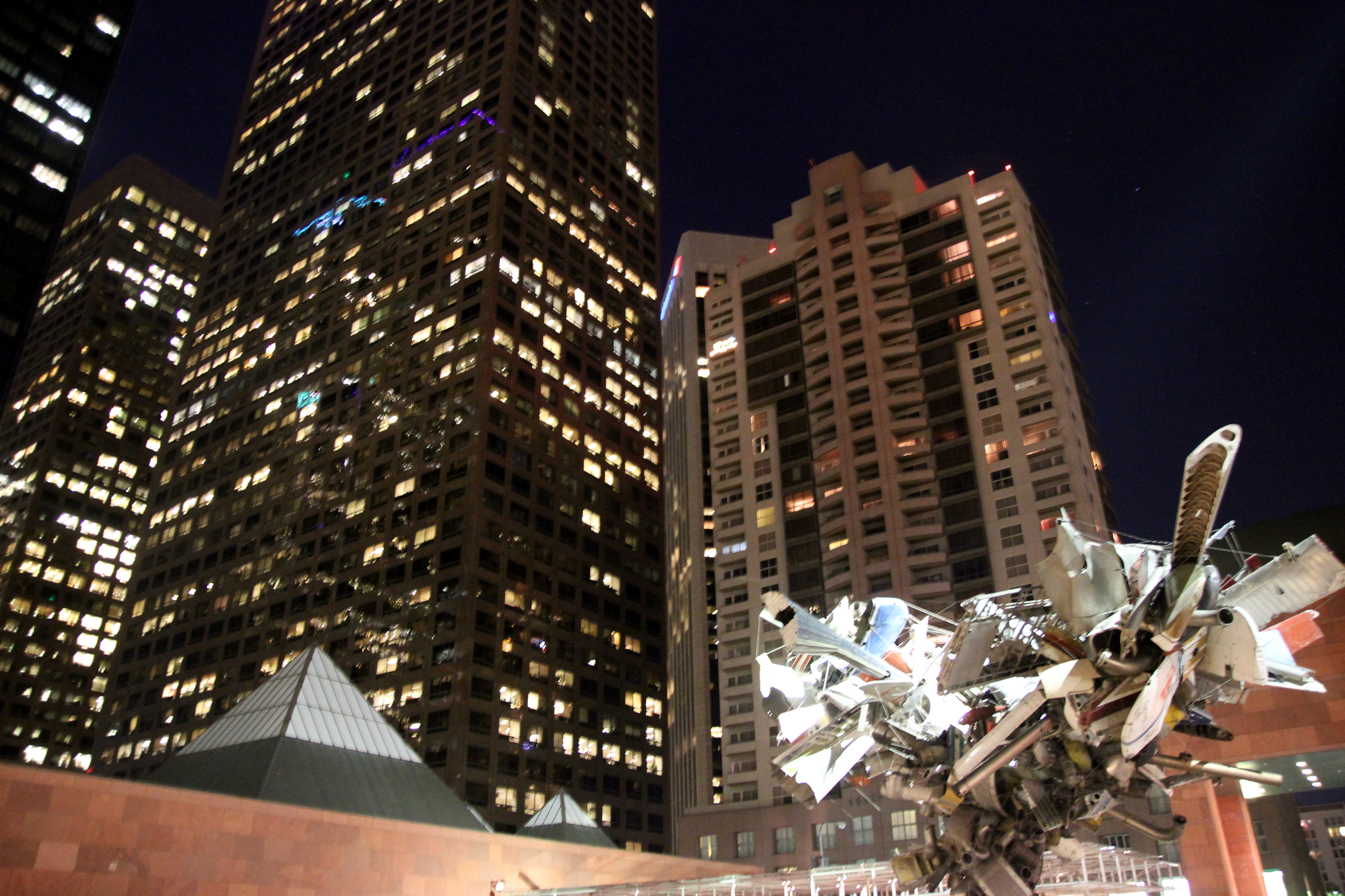 Downtown LA with Nancy Rubins' Airplane Parts sculpture at nighttime. December 2011